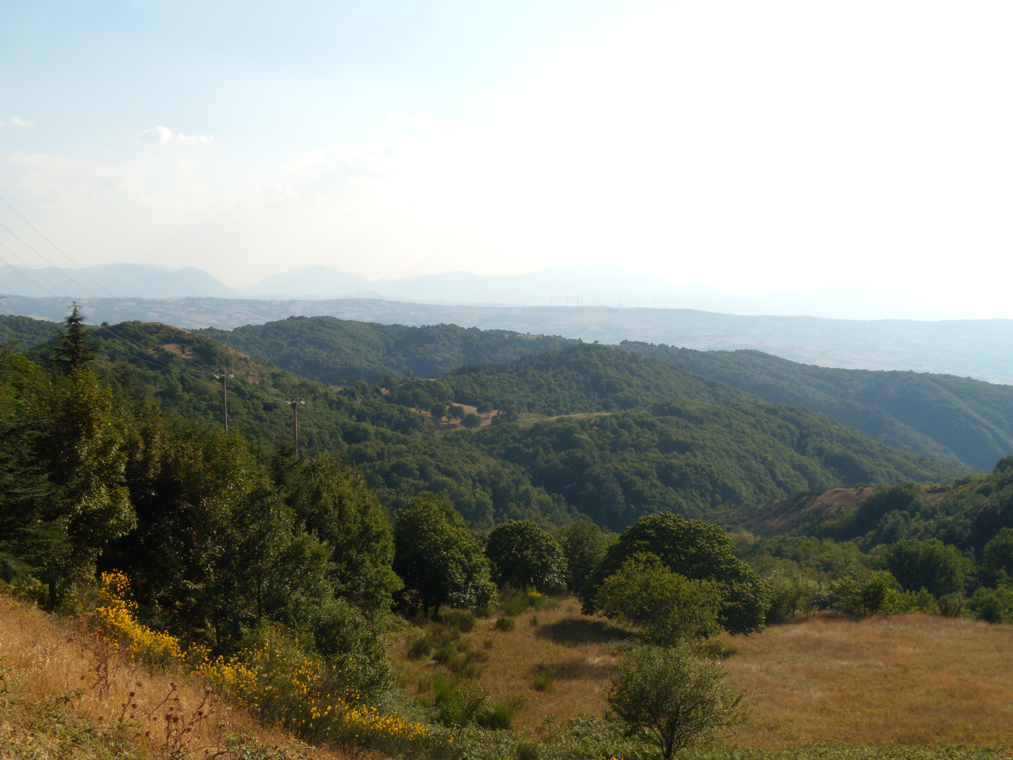 Landscape in Peerage of Vico. Picture taken in Trevico, province of Avellino, Italy.